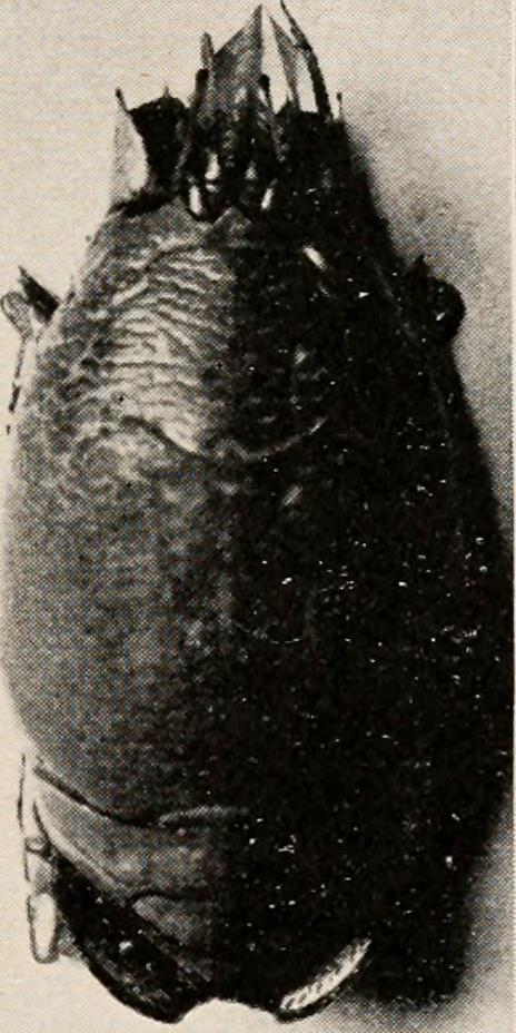 Identifier: introductiontozo00dave Title: Introduction to zoology; a guide to the study of animals, for the use of secondary schools; Year: 1900 (1900s) Authors: Davenport, Charles Benedict, 1866-1944 Davenport, Gertrude Anna Crotty, 1866- Subjects: Zoology Publisher: New York, Macmillan company London, Macmillian and co., ltd. Text Appearing Before Image: ' Text Appearing After Image: FIG. 99. — Eupayurus lonylcurpus removedfrom shell, x Ifc. Photo, by W. H. C. P. FIG. 100. — HippaNat. size. Photo, byW. H. C. P. The Brachyura are represented on our shores by threeprincipal families, which may be designated as triangularcrabs, arched crabs, and square crabs. The spider-crabs, or sea-spiders, as they are sometimescalled, belong to the triangular crabs. As their nameimplies, their legs are very long and slender.3 These crabsfrequent oyster-beds and sea-bottoms in general. When 1 From iTTTTos, horse ; used by Aristotle as the name of a kind of crab. 2 Like talpa, the mole. 3 Fig. 101. 108 ZOOLOGY seen stalking over such uneven surfaces, the advantage ofthese stilt-like legs is at once evident. The surface of thebody of some species of spider-crabs is hairy, entanglinginorganic matter, while hydroids, barnacles, and algae attachthemselves to the shell. Libinia emarginata and dubia^the former ranging from Maine south, and the latter fromCape Cod to the Gulf of Mexico